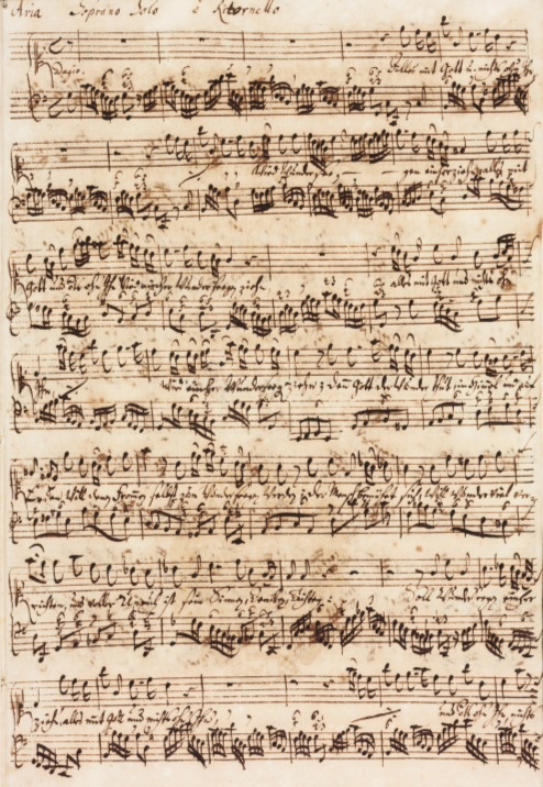 First page of Johann Sebastian Bach's autograph of Alles mit Gott und nichts ohn' ihn, BWV 1127 (Duchess Anna Amalia Library in Weimar)[1]